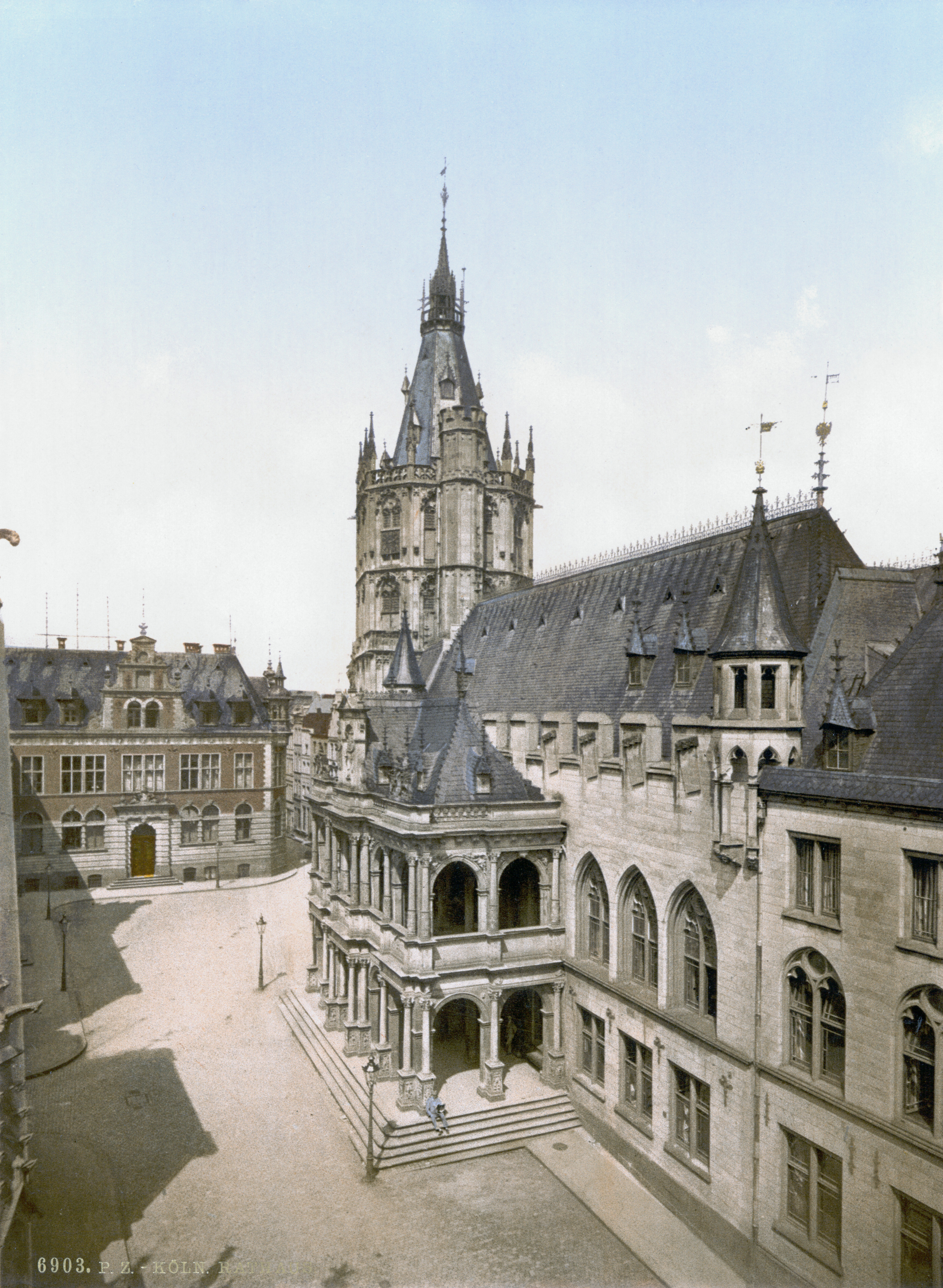 Townhall Cologne, Germany, about 1900